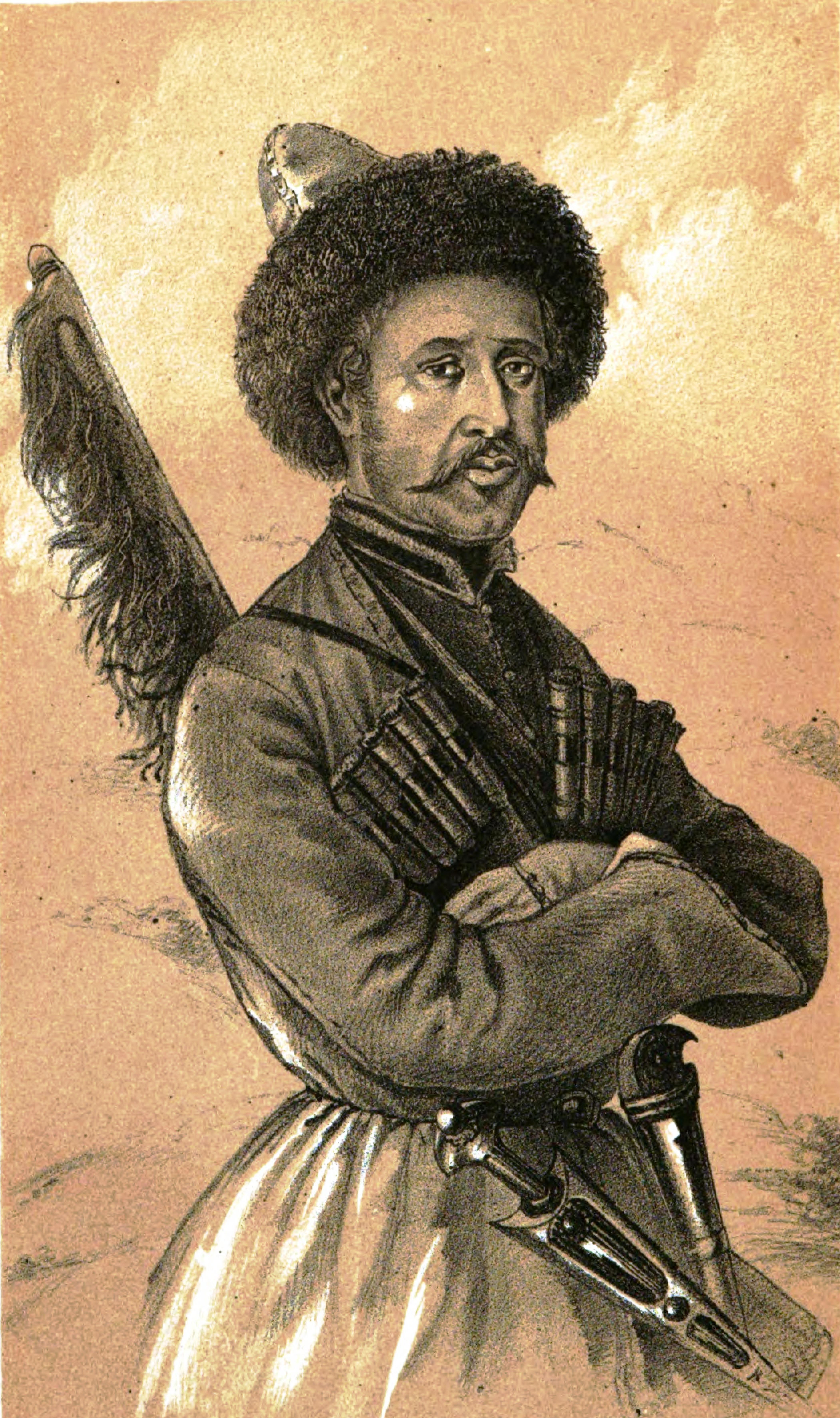 Prince Michael of Abkhazia (Hamid Bey).